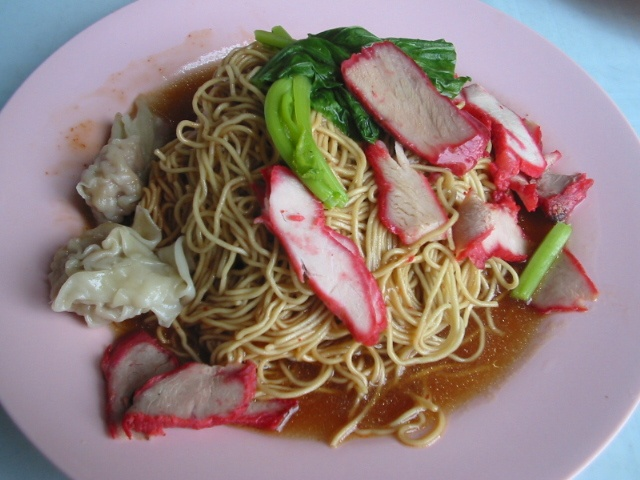 Wanton Mee dish (Cantonese egg noodles)